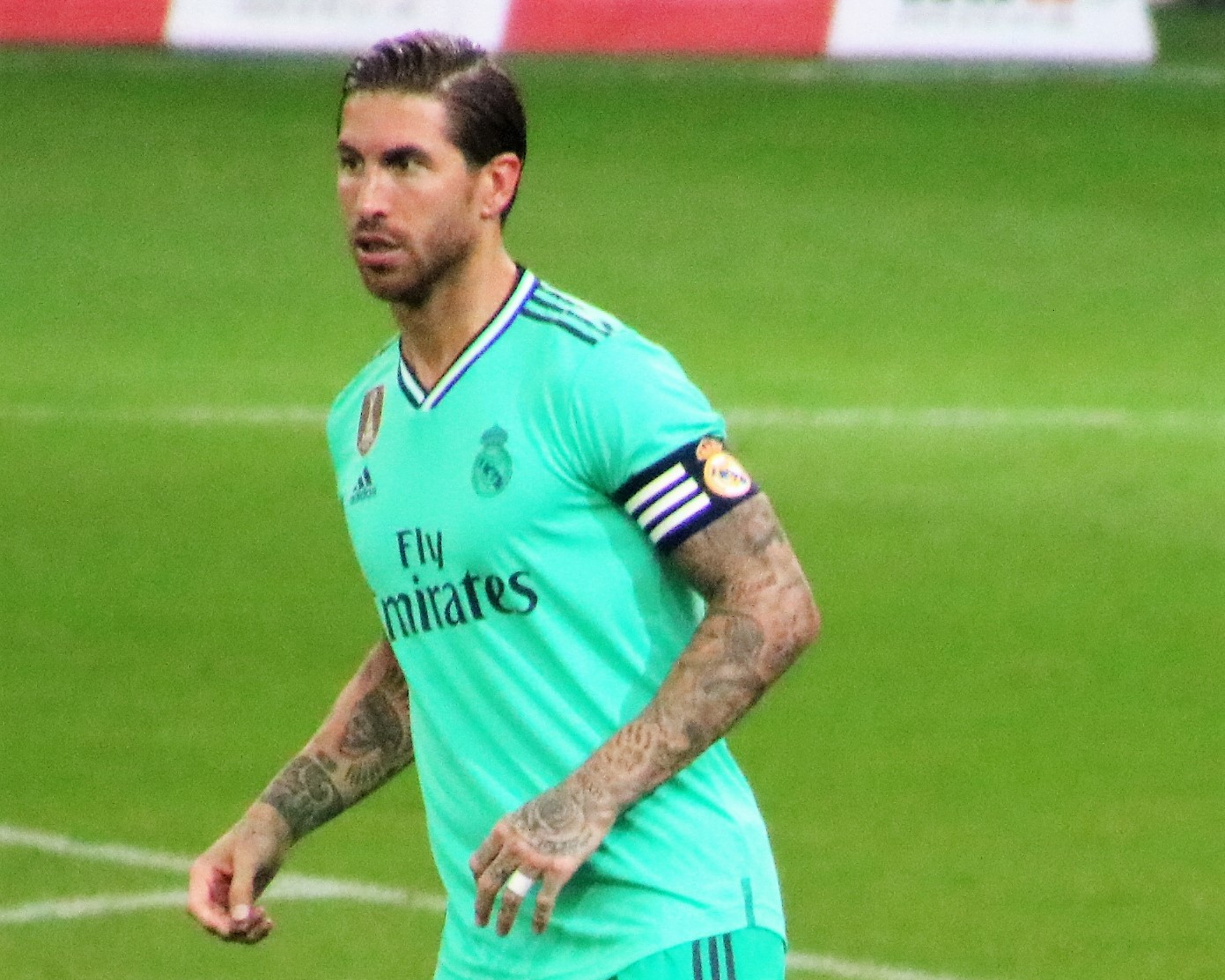 Preseason match